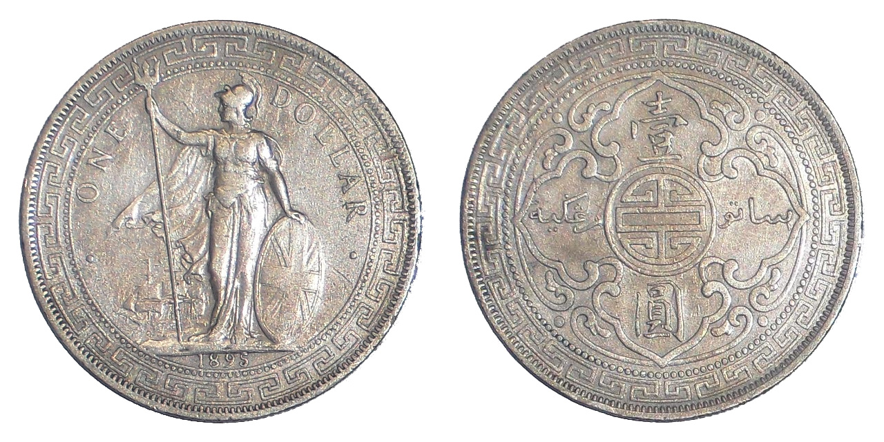 Trade Dollar 1895(United Kingdom)